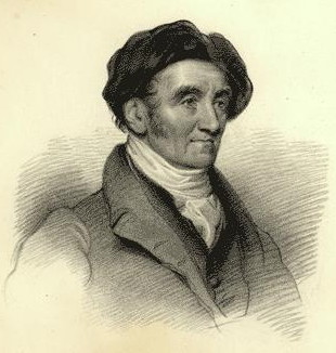 Sketch of Charles Hayter in 1811, by his son John Hayter.